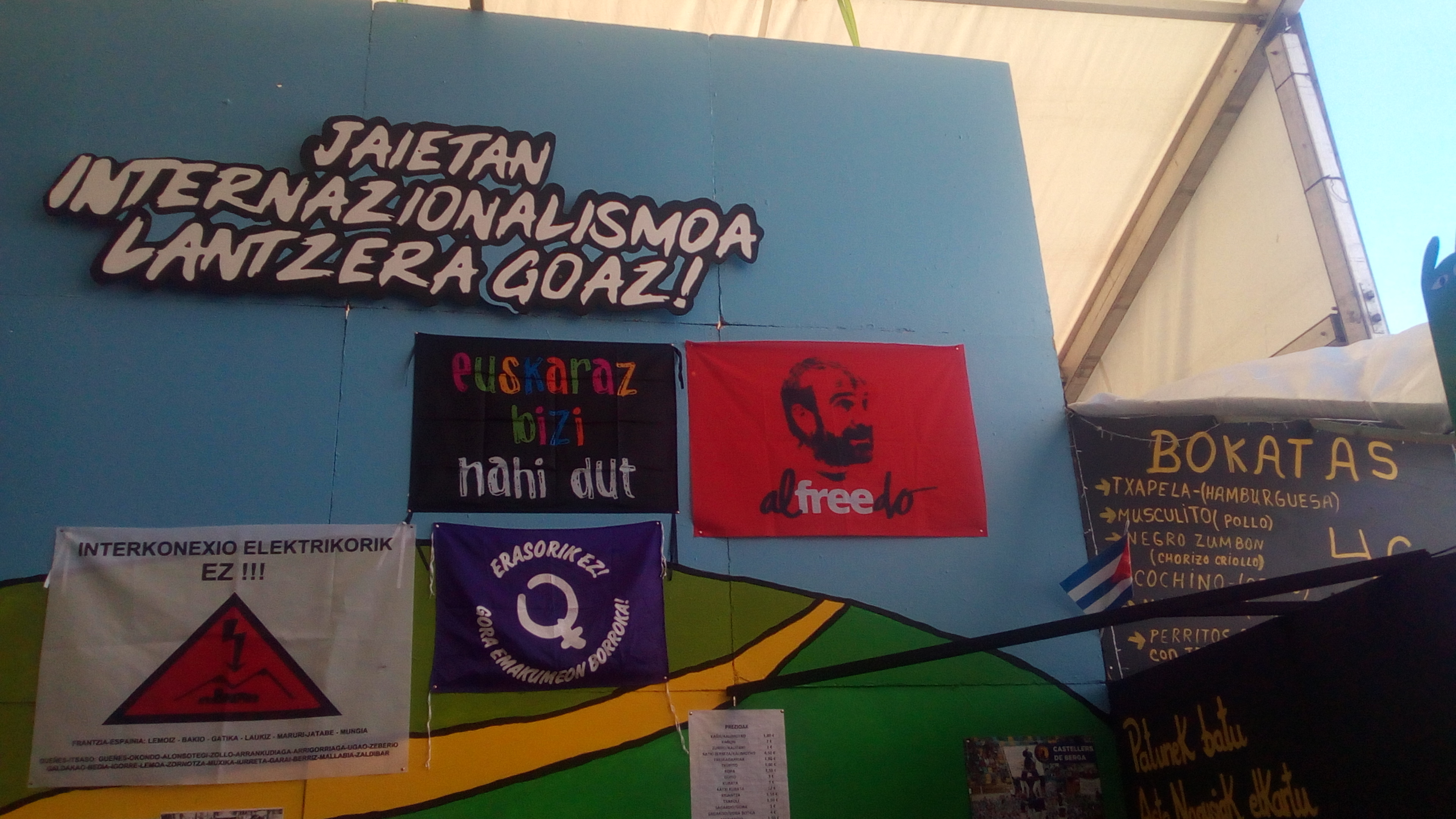 Alfredo Remirez poster in Bilbao festibal